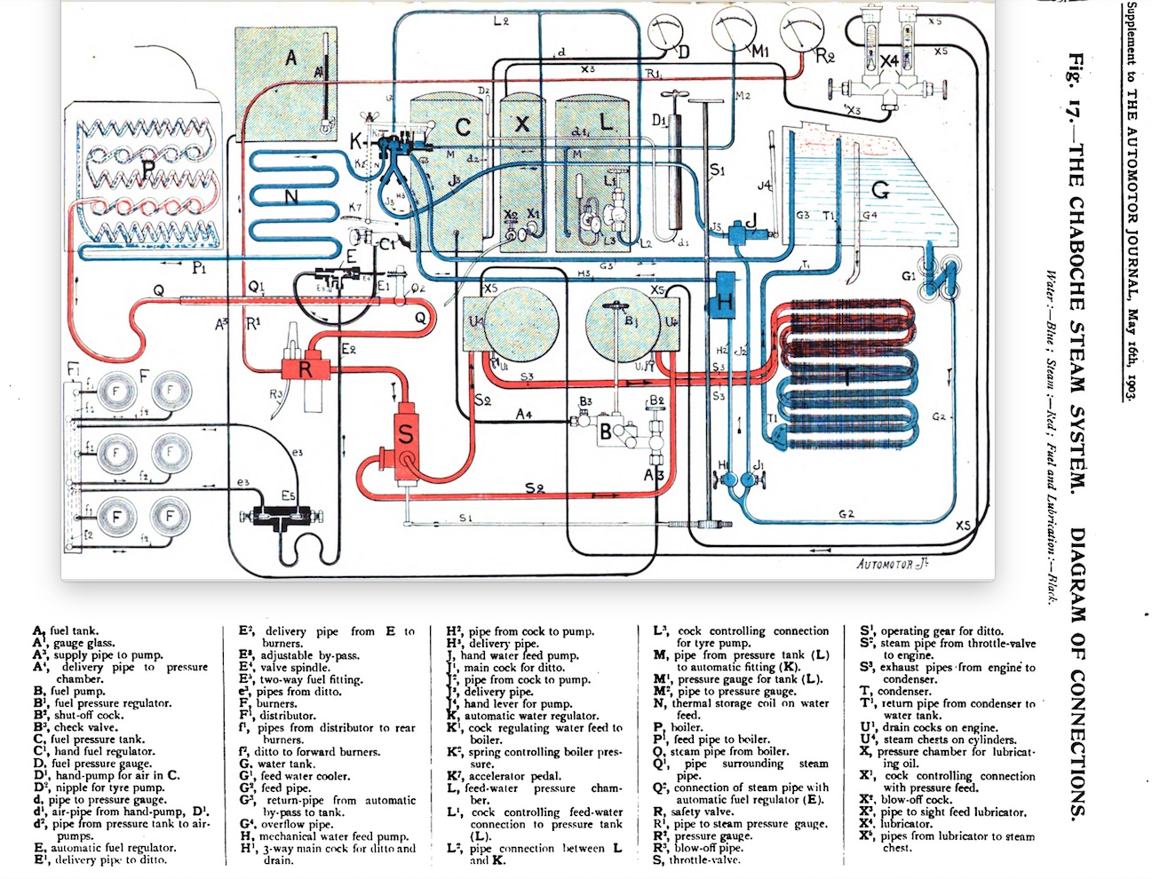 Diagram of the Chaboche steam system